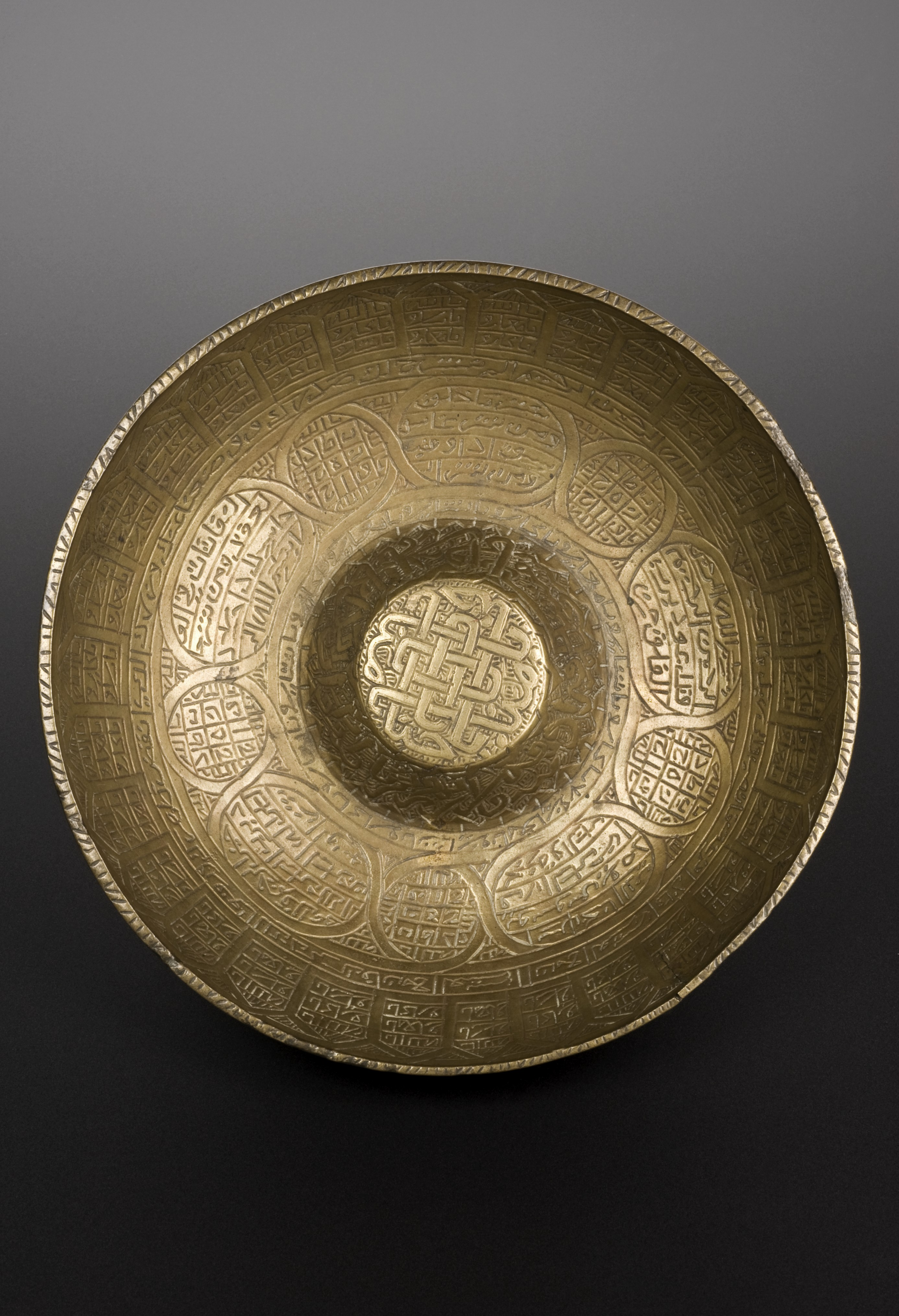 Divination was used in medicine to try to determine the cause of an illness and to give some indication as to suitable treatments. This divination bowl may have been used by interpreting the reflection of light on its sides. Other divination methods include casting stones or studying the entrails of a sacrificed animal and interpreting the patterns made. This brass bowl is engraved with inscriptions using Arabic script. Some of these are from the Qur’an. On the underneath of the bowl there is the Star of David, a six-pointed star connected with the Jewish faith. This mix of Jewish and Muslim religious symbols is not so surprising when we find out that the bowl was purchased in 1935 in Jerusalem, a holy place for Islam, Judaism and Christianity. It is not known where this bowl was made although Persia (modern day Iran) or Palestine in the Middle East seem likely. maker: Unknown maker Place made: Middle East Wellcome Images Keywords: divination bowl